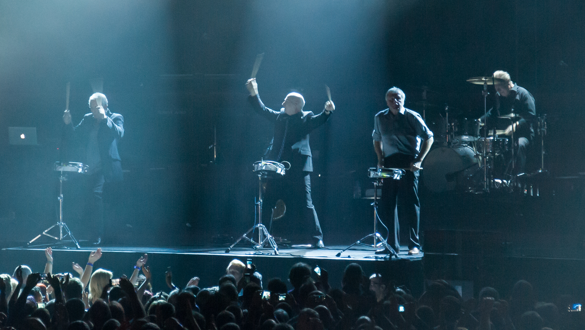 Ultravox playing concert at The O₂ in line with Simple Minds "Greatest Hits" tour, London